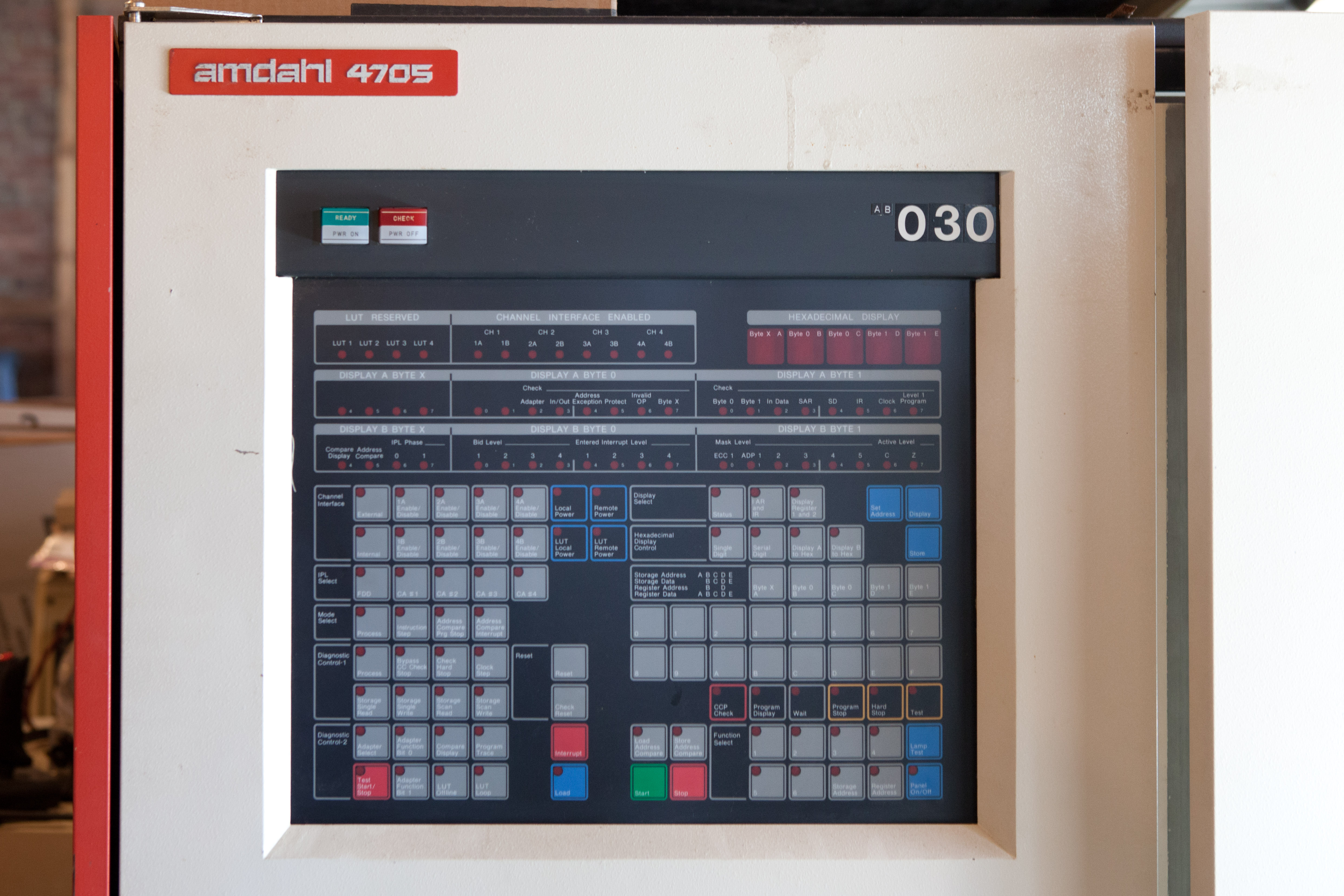 Frontpanel on an Amdahl 4705 communications controller at the MARCH vintage computer museum.